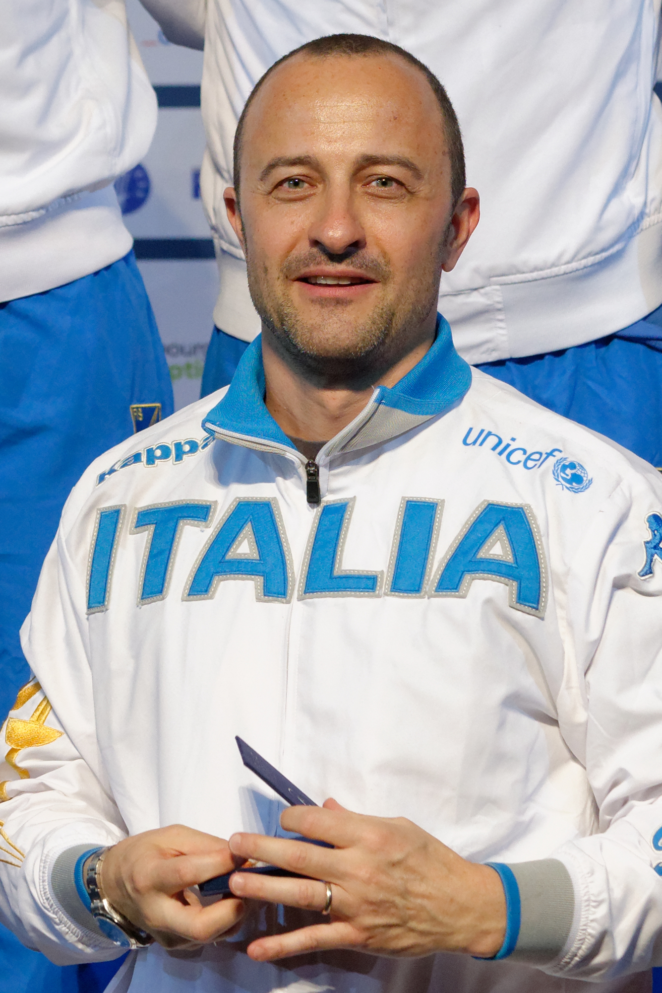 Italy national coach Giovanni Sirovich at the award ceremony of the men's team sabre event at the European Fencing Championships at Rhénus Sport in Strasbourg on 14 June 2014.